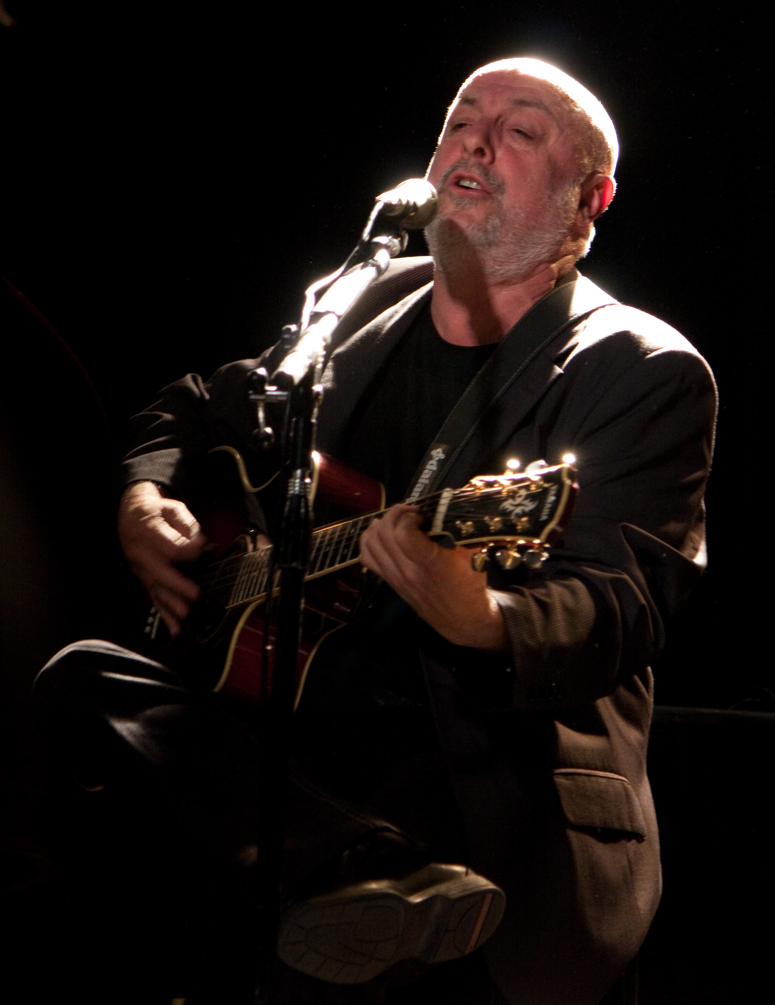 Juan Carlos Baglietto in concert (November 2010, Buenos Aires, Argentina)